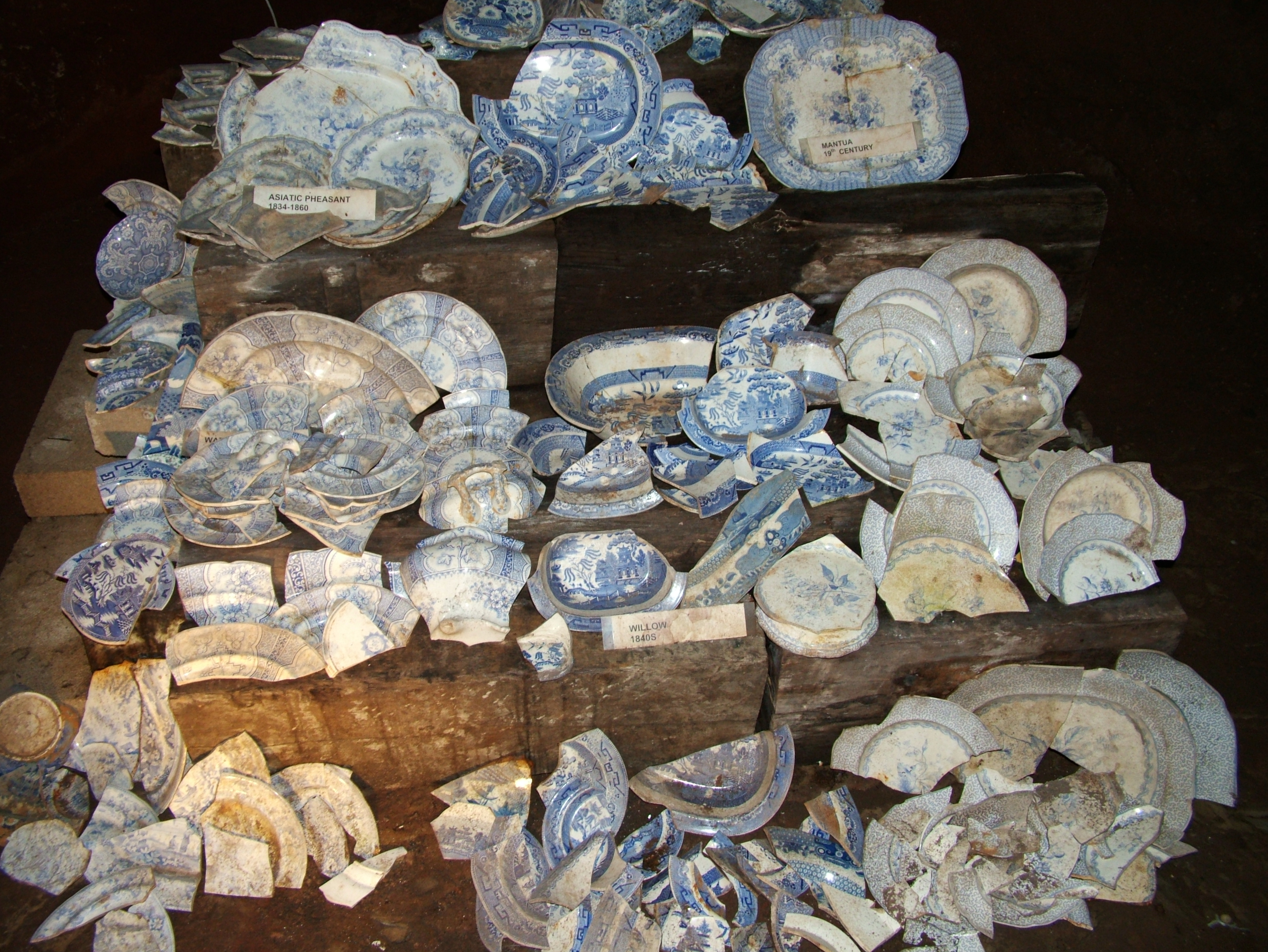 Plates, some of the large numbers of items found as a result of the tunnels being used as a Victorian rubbish tip after Williamson's death in the Williamson's Tunnels